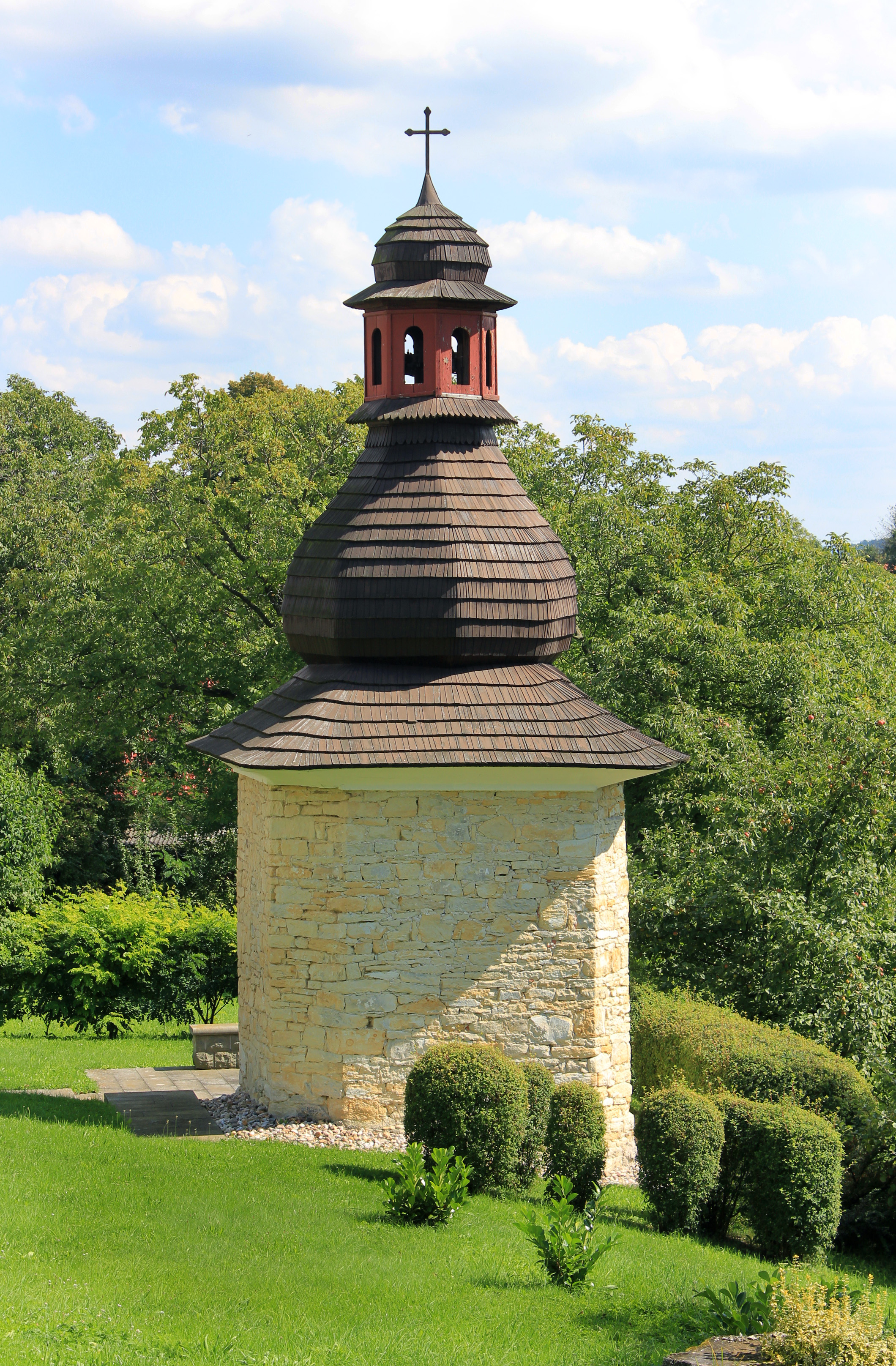 Chapel in Příluka, Czech Republic.